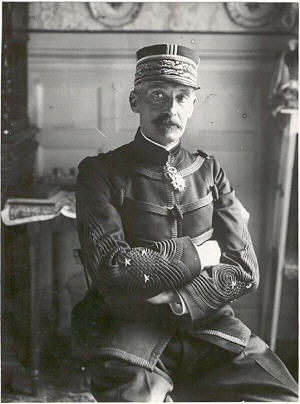 French general Victor Constant Michel